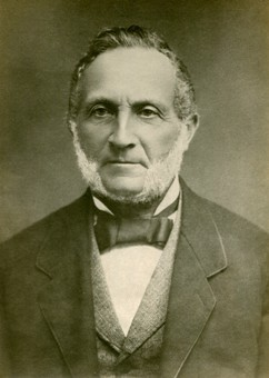 Theodor Adolf Friedrich Scharenberg